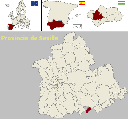 Coripe